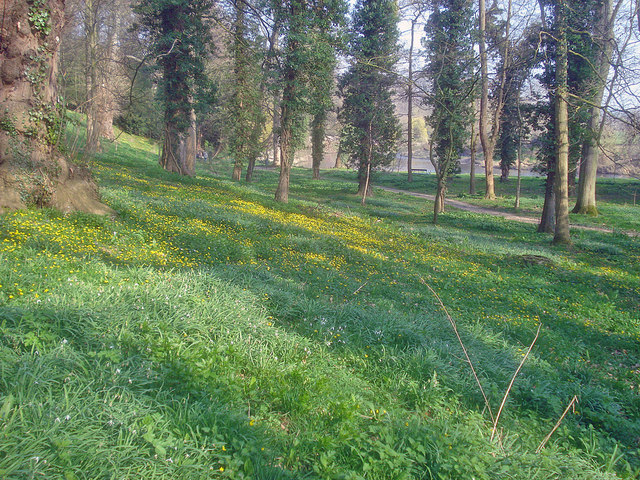 Celandines and snow drops The western end of the Weir Garden is less formal but is no less colourful in the spring. First snowdrops (here just finishing in March) then celandines carpet the ground under the mature trees.